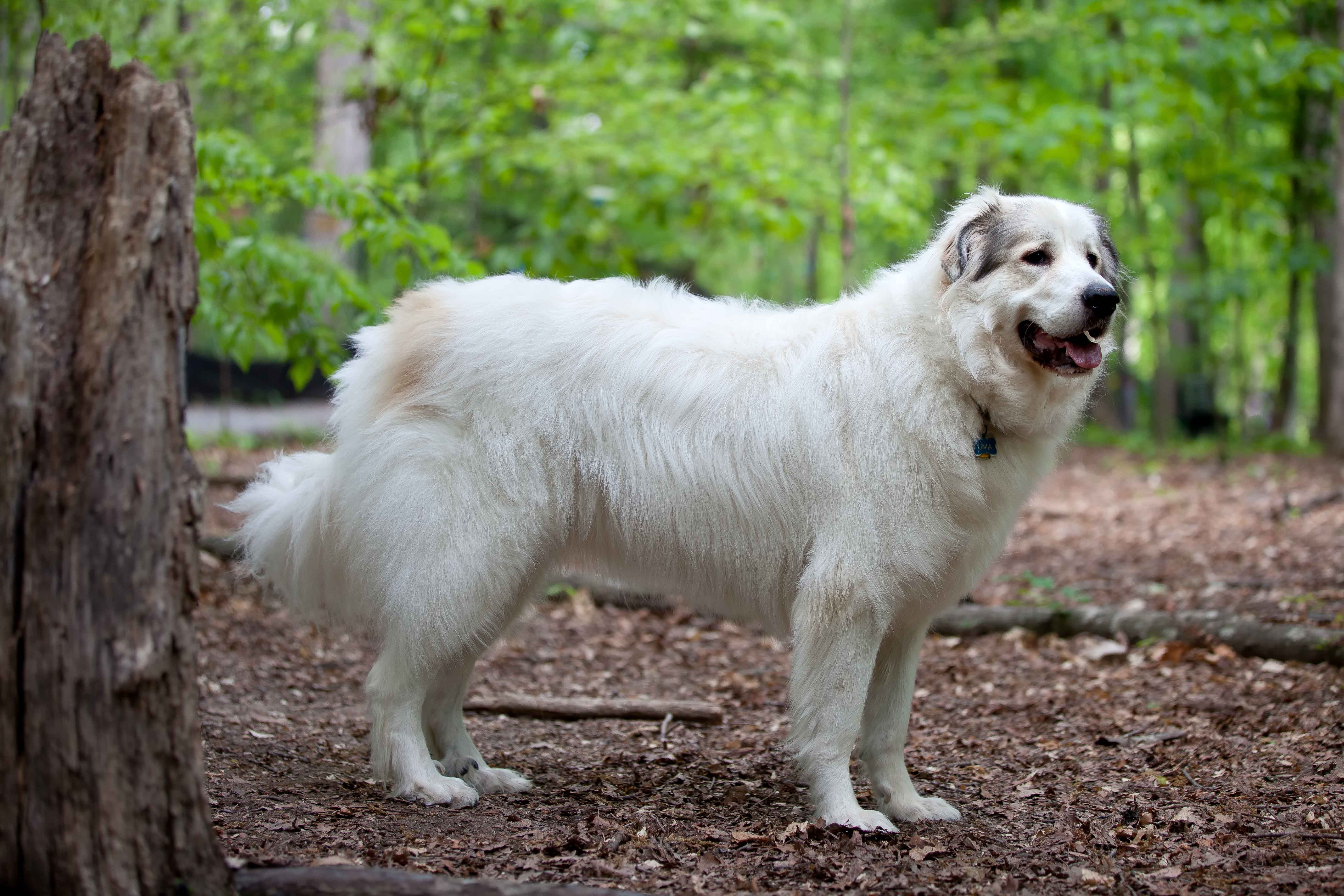 Great Pyrenees Mountain Dog